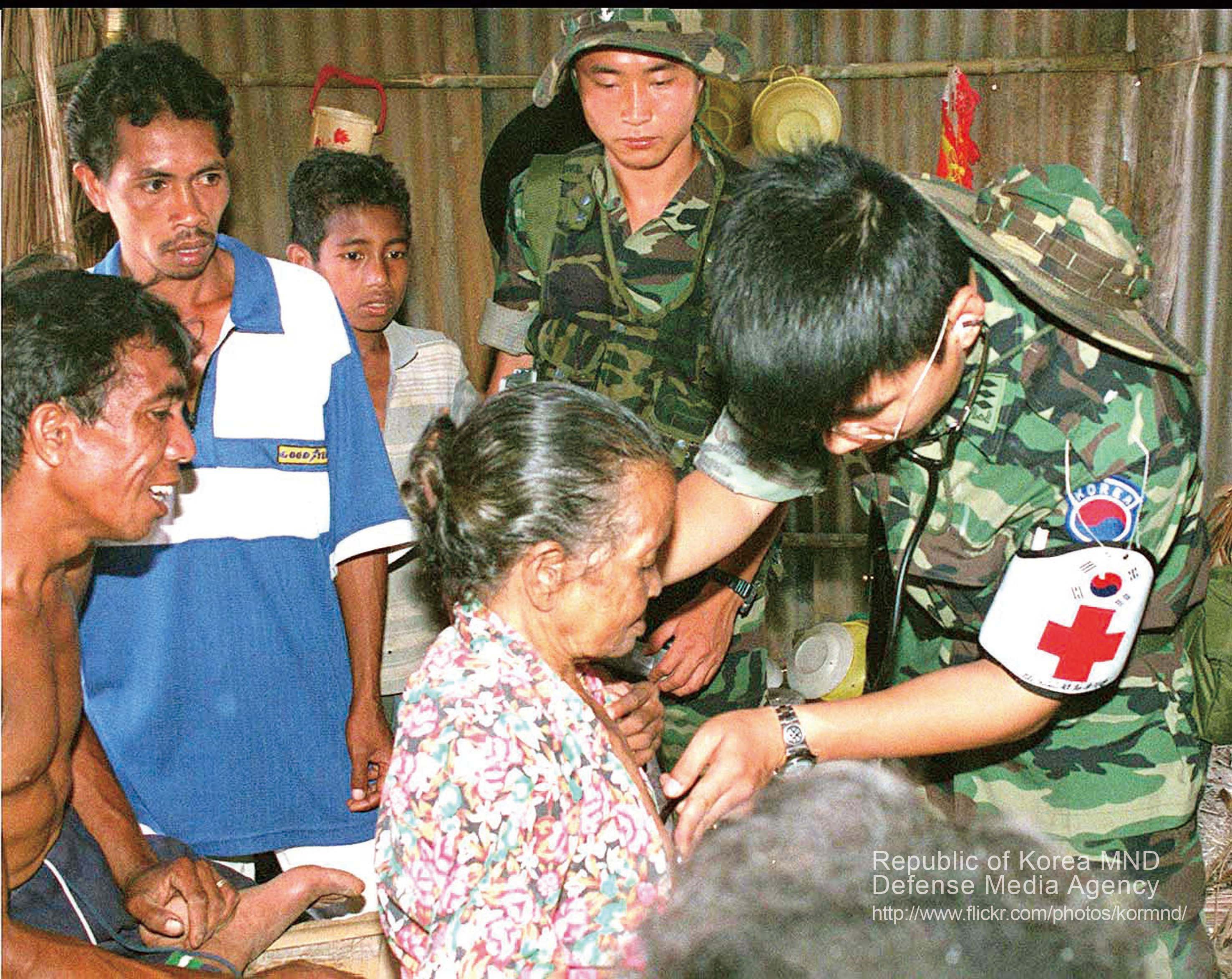 2010 국방화보 Rep. of Korea, Defense Photo Magazine 상록수부대 군의관이 의료 혜택이 절대 부족한 마을 주민들을 대상으로 건강 상태를 살펴보고 있다. Medical service by army surgeon of Sangroksu Unit for the local people.